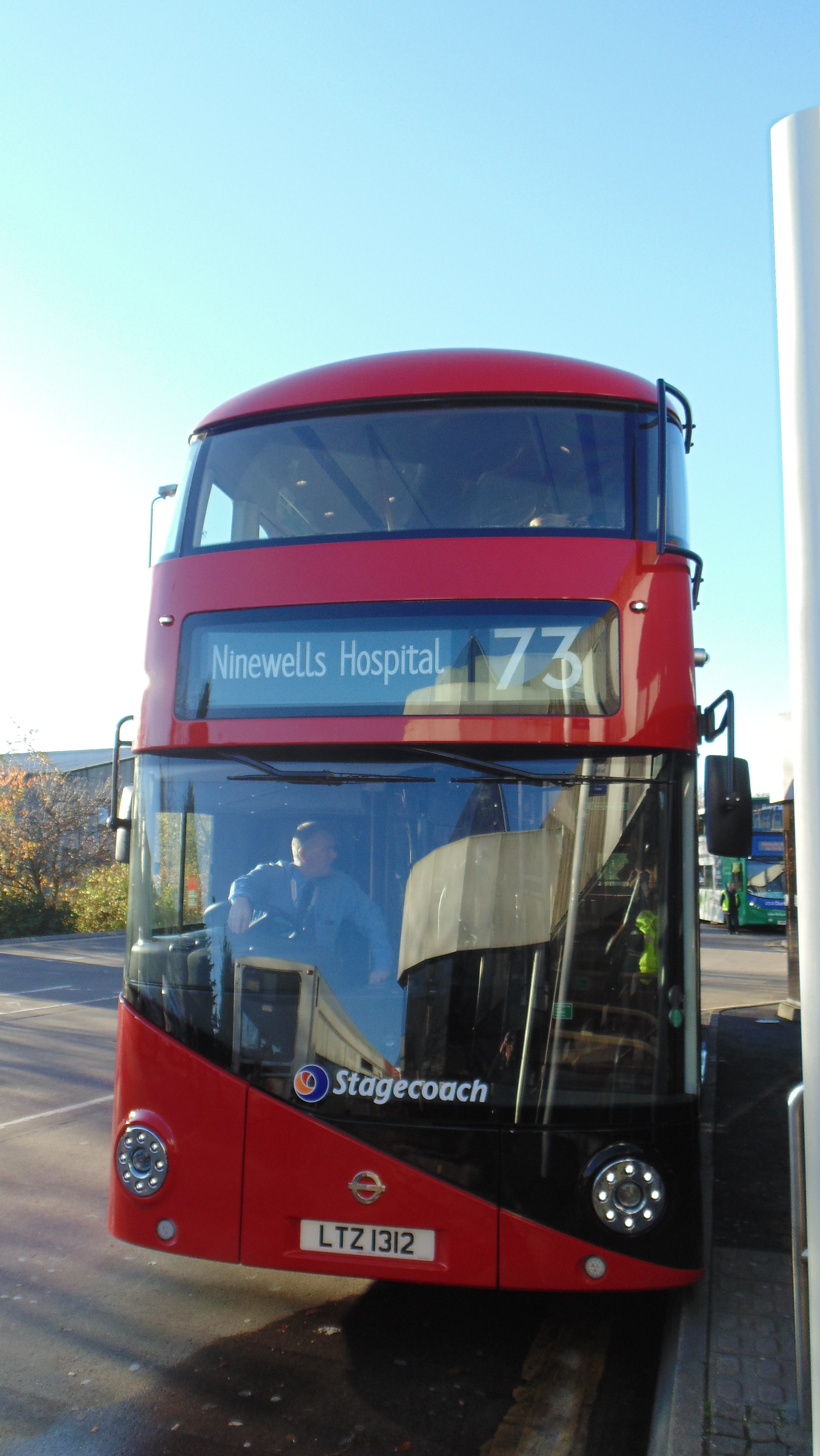 stagecoach LT312